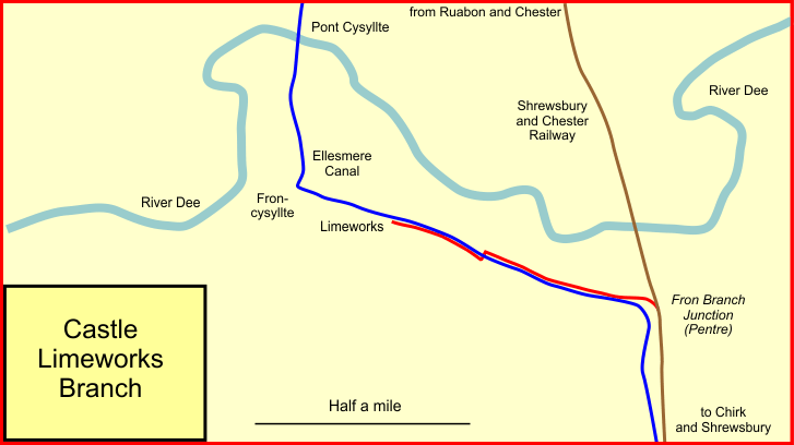 System map of the railway branch line to Castle Limeworks, Froncysyllte, Wales